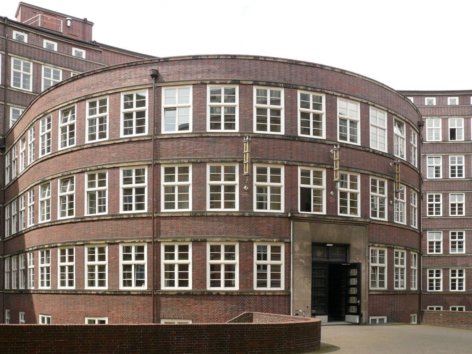 Registry Office at Civil Justice Building, Hamburg by F.Schumacher